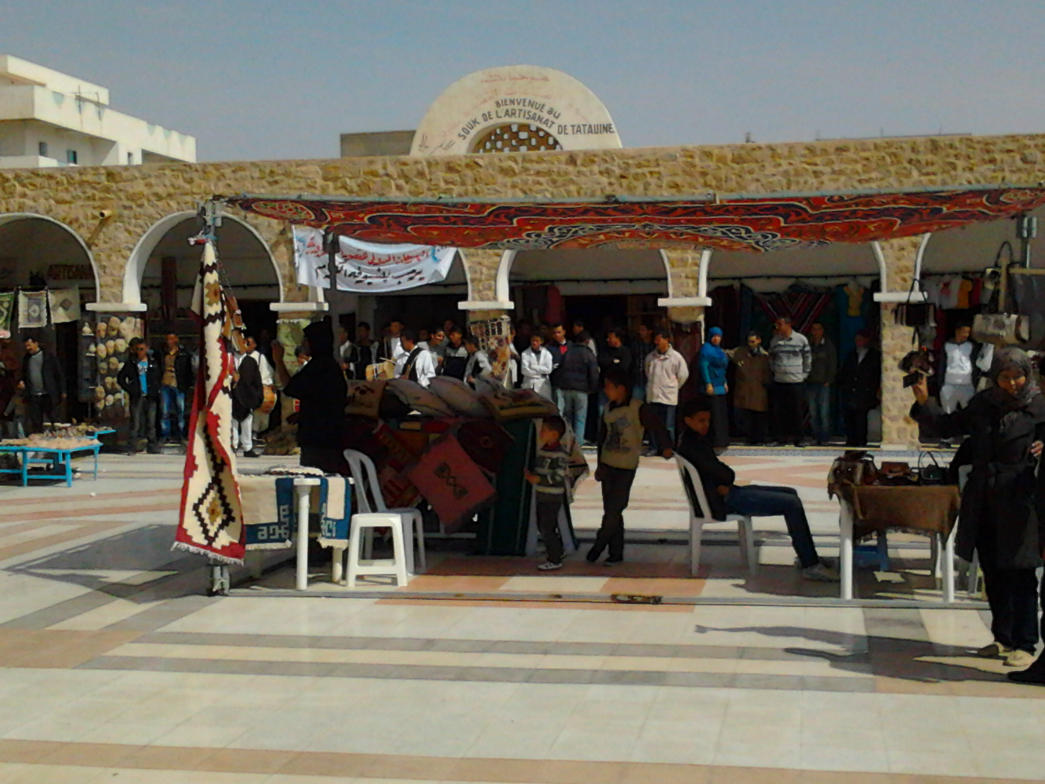 handicrafts, souk Tataouine